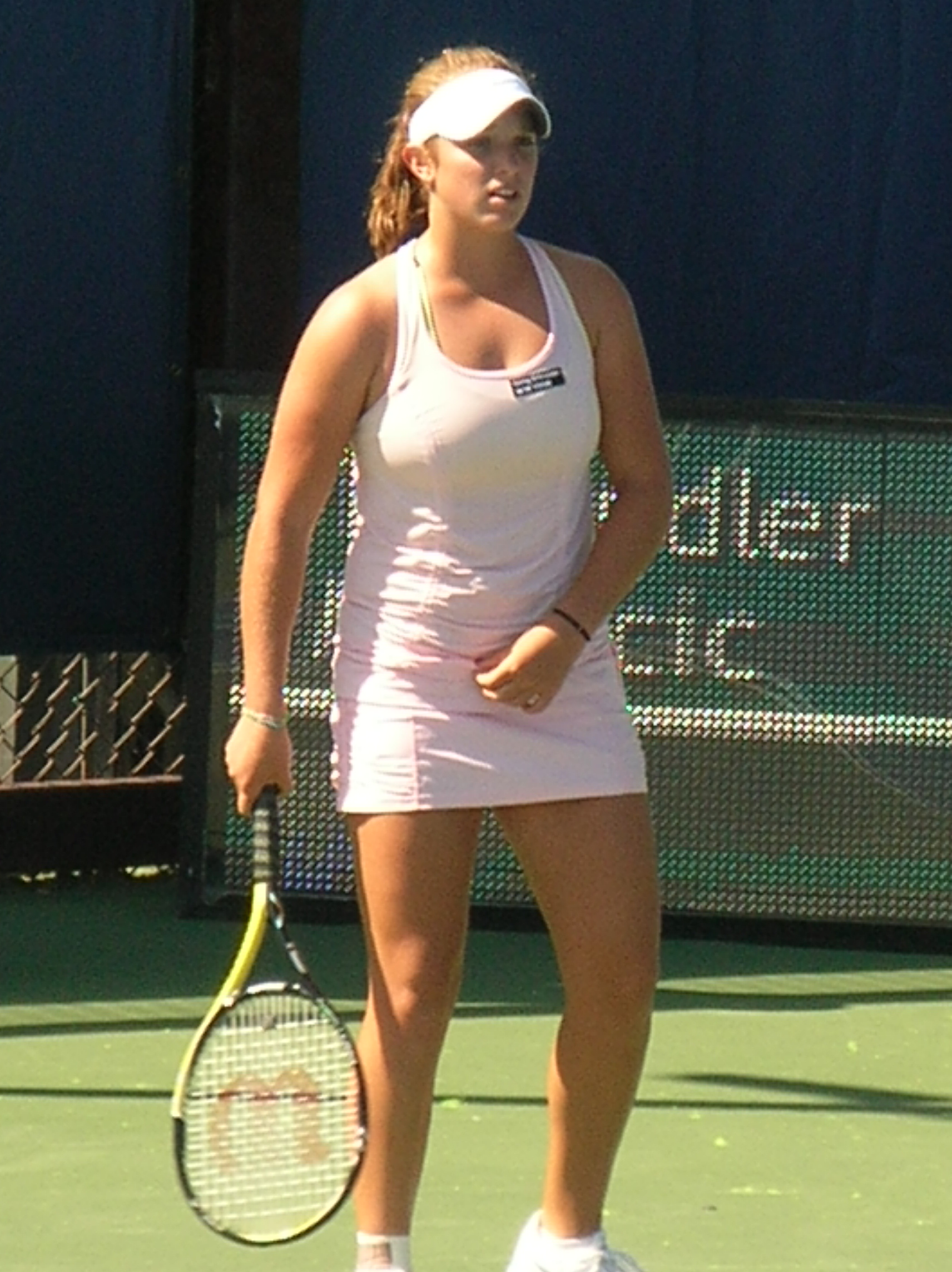 Tamaryn Hendler in the second round of qualifying at the Bank of the West Classic at Stanford. She lost to Mirjana Lučić 6-2, 6-4.